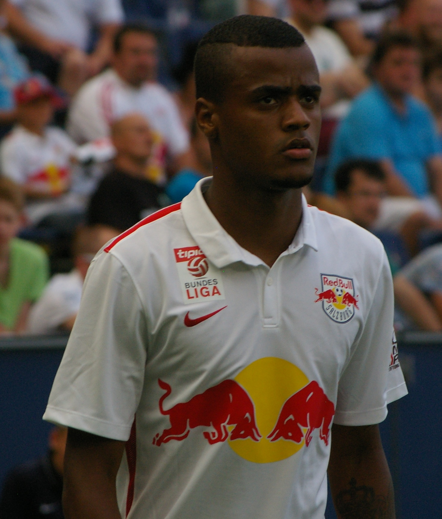 tournament with SV Werder Bremen, FC Southampton, Red Bull Salzburg and Valencia CF preseason friendly matches